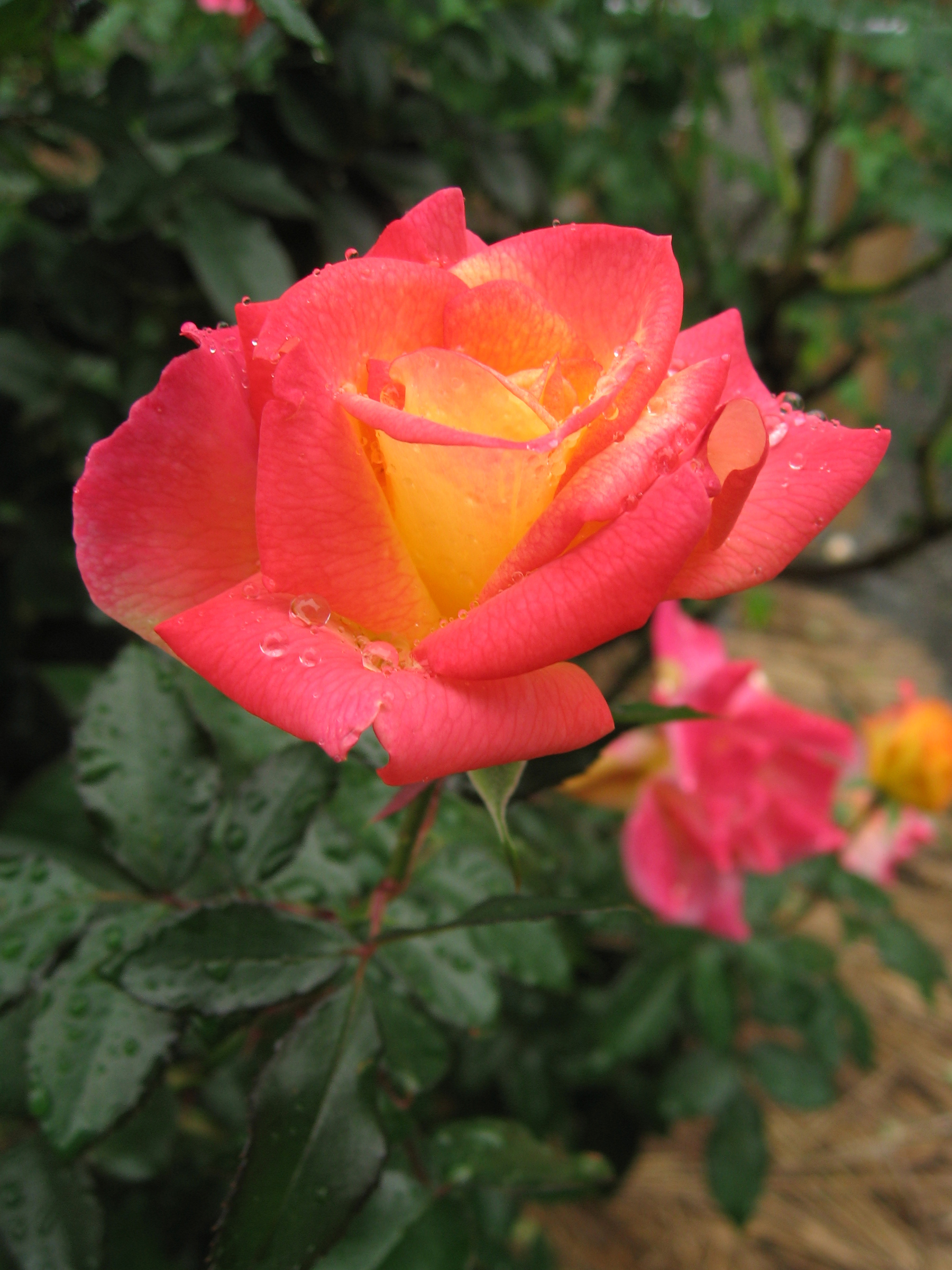 Rosa 'Charleston', FL, Meilland (1963), Jingu Rose Garden, Uji-Nakanokiri Ise, Mie Japan.